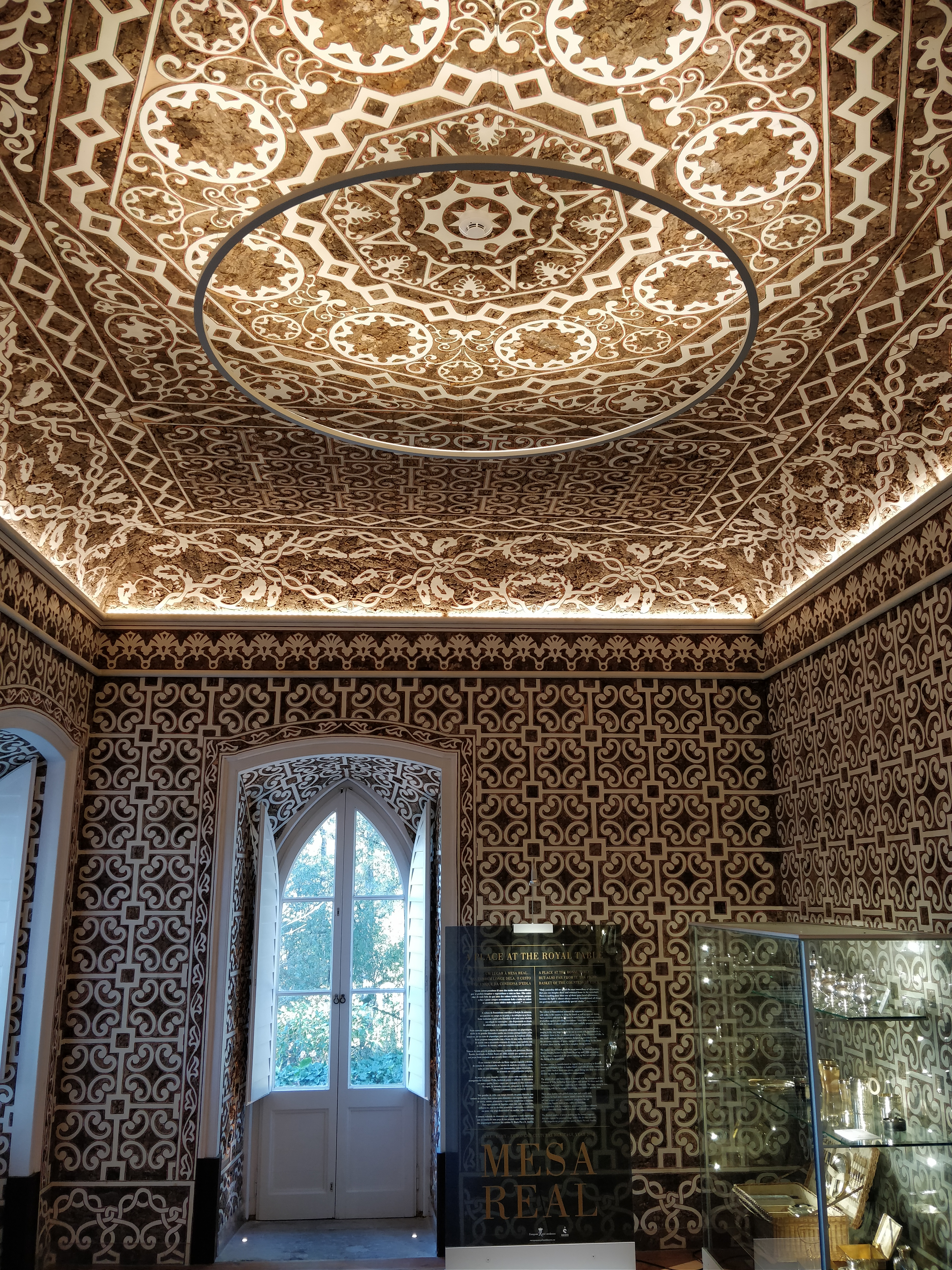 Dining Room at the Chalet of the Contessa D'Edla, Sintra, Portugal